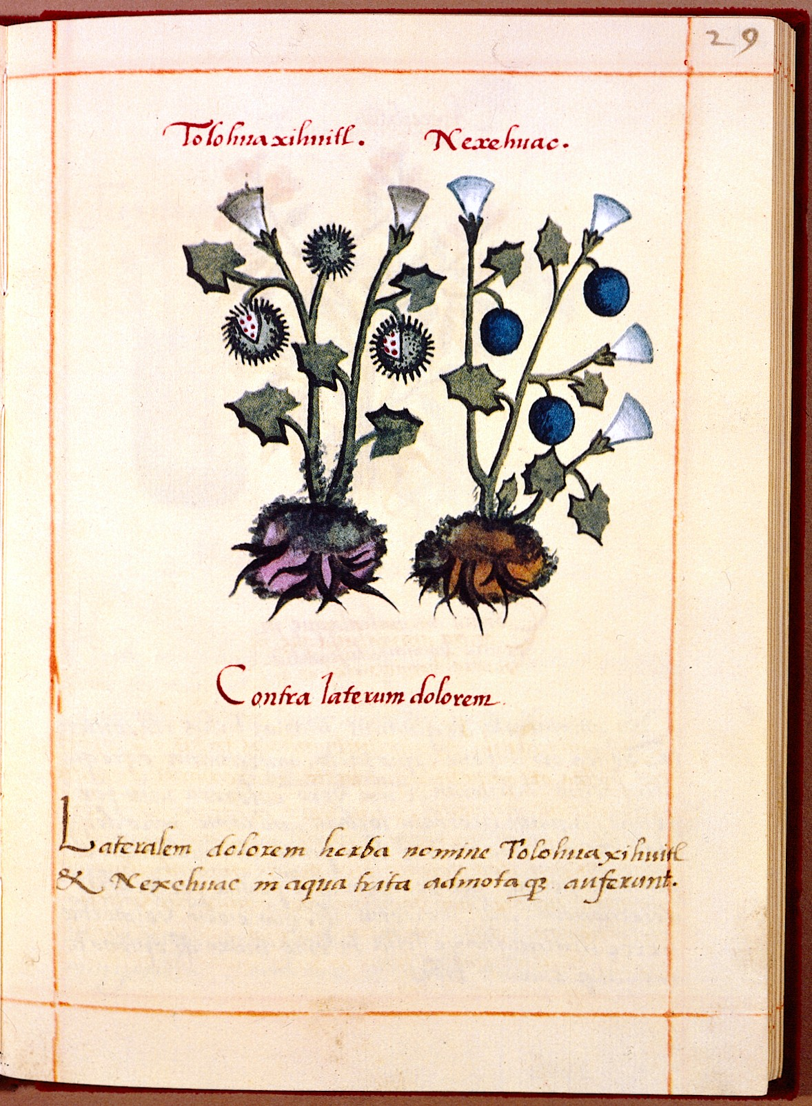 Badianus Codex, (facsimile), written in N huatl by the Aztec physician Martinus de la Cruz, tr. by Juannes Badianus {latin}, presented to the son of the first Viceroy of New Spain in 1552. Two species of Datura used for `pain in the side'. Wellcome Images Keywords: American Collections; Botany; Materia Medica